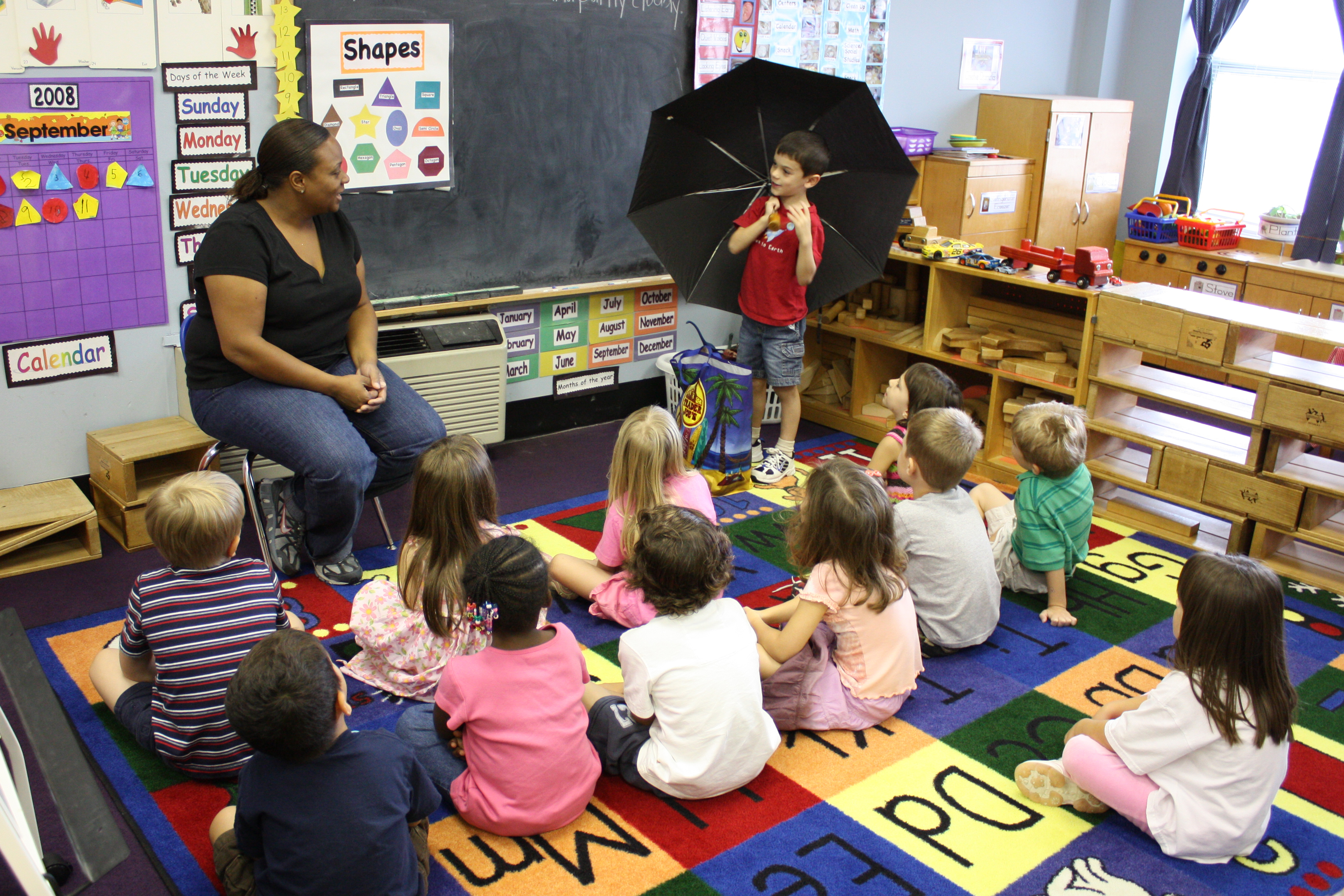 Show and Tell - explaining the rain game